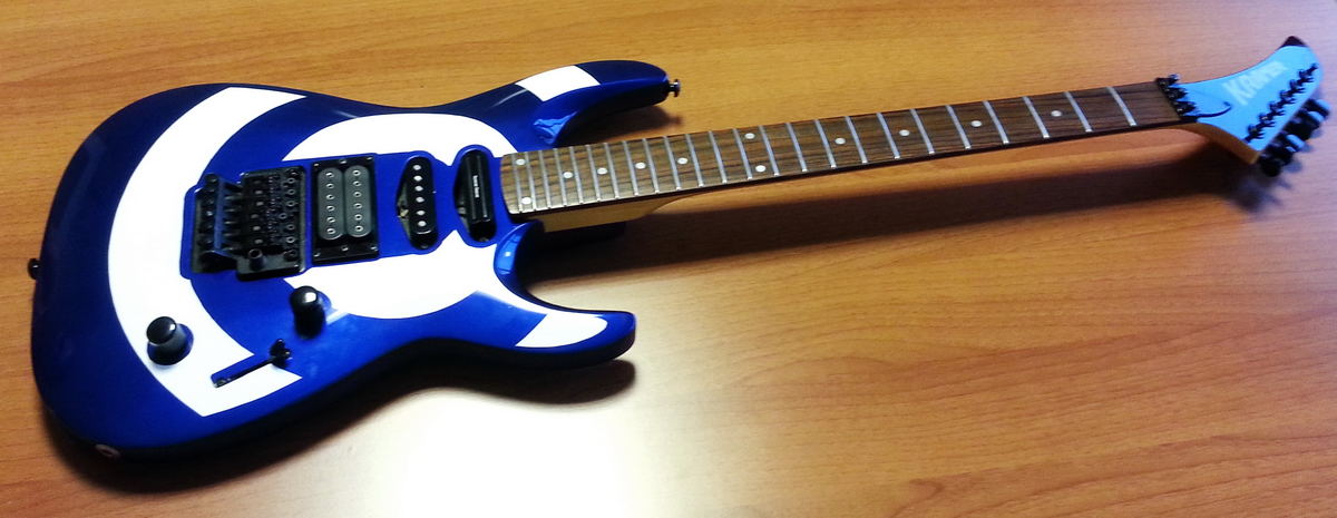 Kramer guitar with handmade bullseye